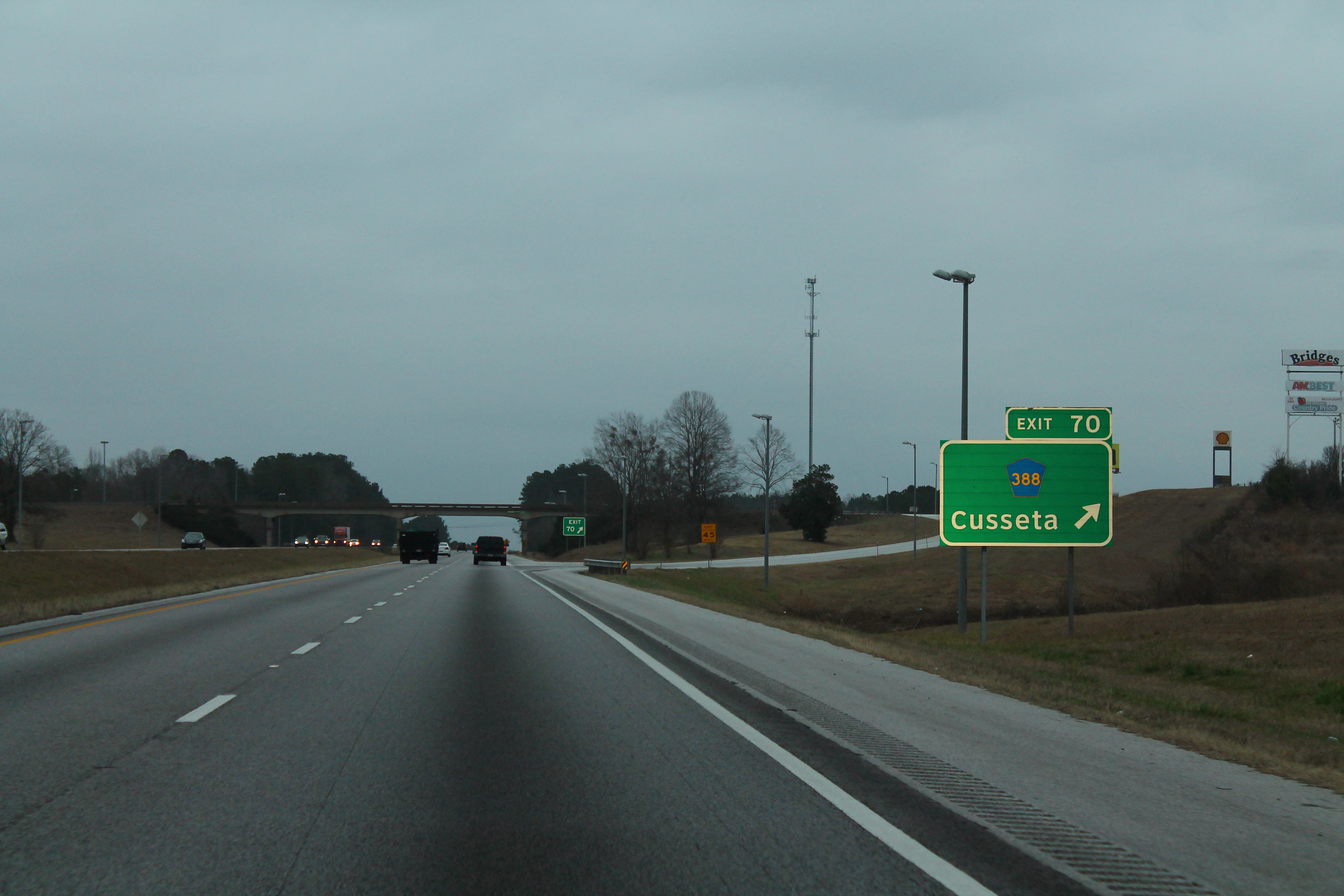 I-85 North: Exit 70 - CR 388